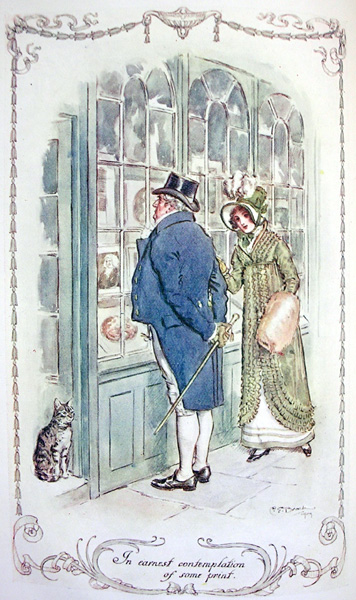 Persuasion, ch. 18. Admiral Croft is in earnest contemplation of some print, and doesn't see Anne Elliot.